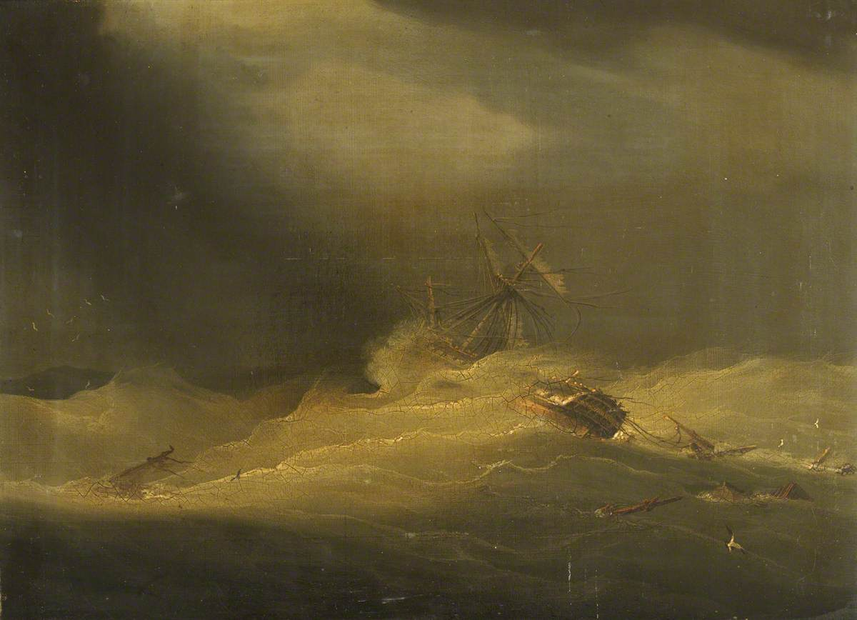 The Lady Castlereagh dismasted in a cyclone off Madras, 24 October 1818 'The Lady Castlereagh dismasted in a cyclone off Madras, 24 October 1818'. Owned by Henry Callender esq. the 820 ton Lady Castlereagh made its first voyage for the East India Company in April 1803, on that occasion visiting Bengal. In all the vessel made seven voyages for the Company mainly to Bengal, but also to St Helena, Madras and during its last journey to China. In February 1809 the ship sailed under the command of captain William Hamilton, the ownership then residing with a Miss Jane Chrystie. By the time of the Lady Castlereagh's next voyage, which commenced in May 1811, William Hamilton had taken over ownership of the vessel. The last time the vessel is recorded in East India Company service was in June 1817 when it reached English moorings at the end of its seventh voyage. Clearly the incident depicted by the painting took place during an eighth voyage to the east, but not in the service of the Company. For its last voyage, the ship was contracted to the government for convict transport. It sailed for Sydney in 1817 and landed 220 convicts in April 1818. The incident depicted in the painting occurred on the return voyage, as recorded in the eyewitness account "Narrative of a Voyage to India; of a Shipwreck on board the Lady Castlereagh; and a Description of New South Wales" by W.B. Cramp (1823). The National Maritime Museum holds ship assurance documents dated to 1808-1810 for a Lady Castlereagh [MSS/85/062.4]. The Lady Castlereagh dismasted in a cyclone off Madras, 24 October 1818